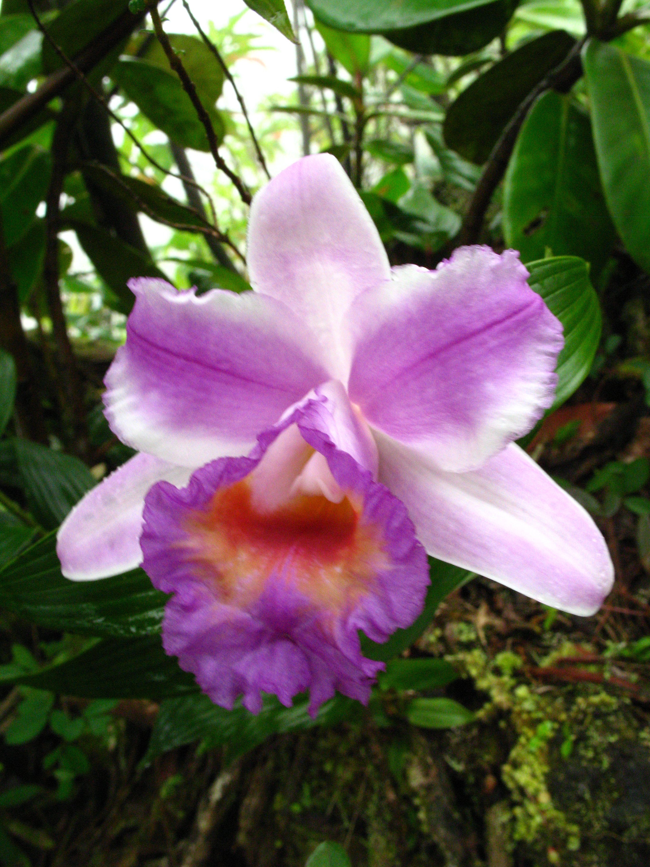 Sobralia orchid, Ometepe island, Nicaragua